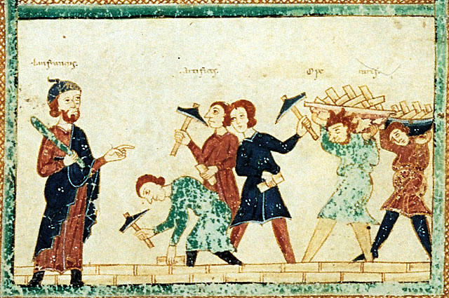 Magister Lanfranco, the architect of Modena Dome, directs the works